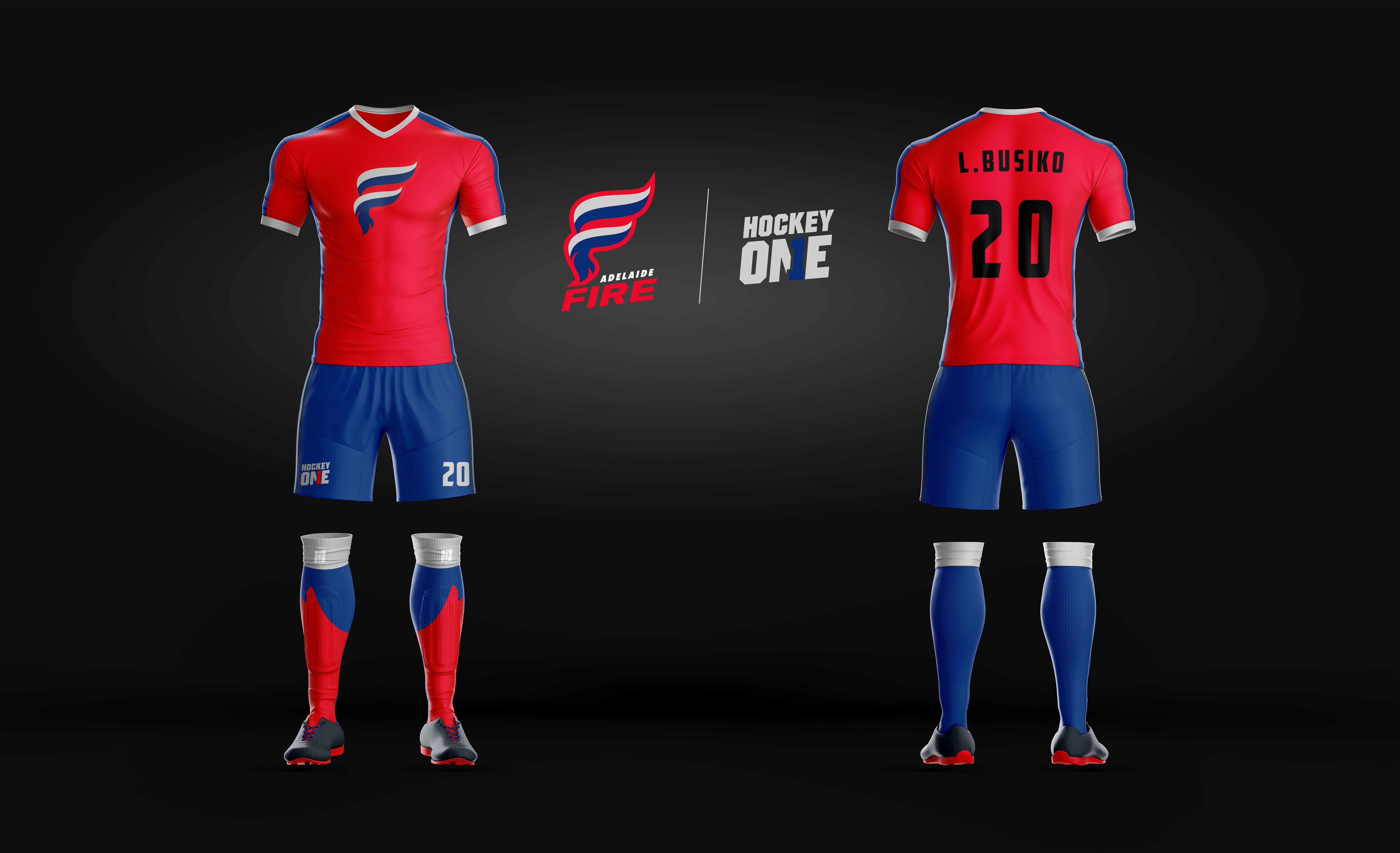 Adelaide Fire Men's Uniform